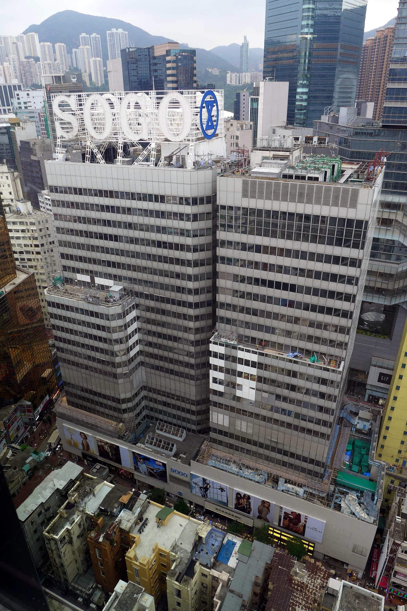 East Point Centre, Causeway Bay